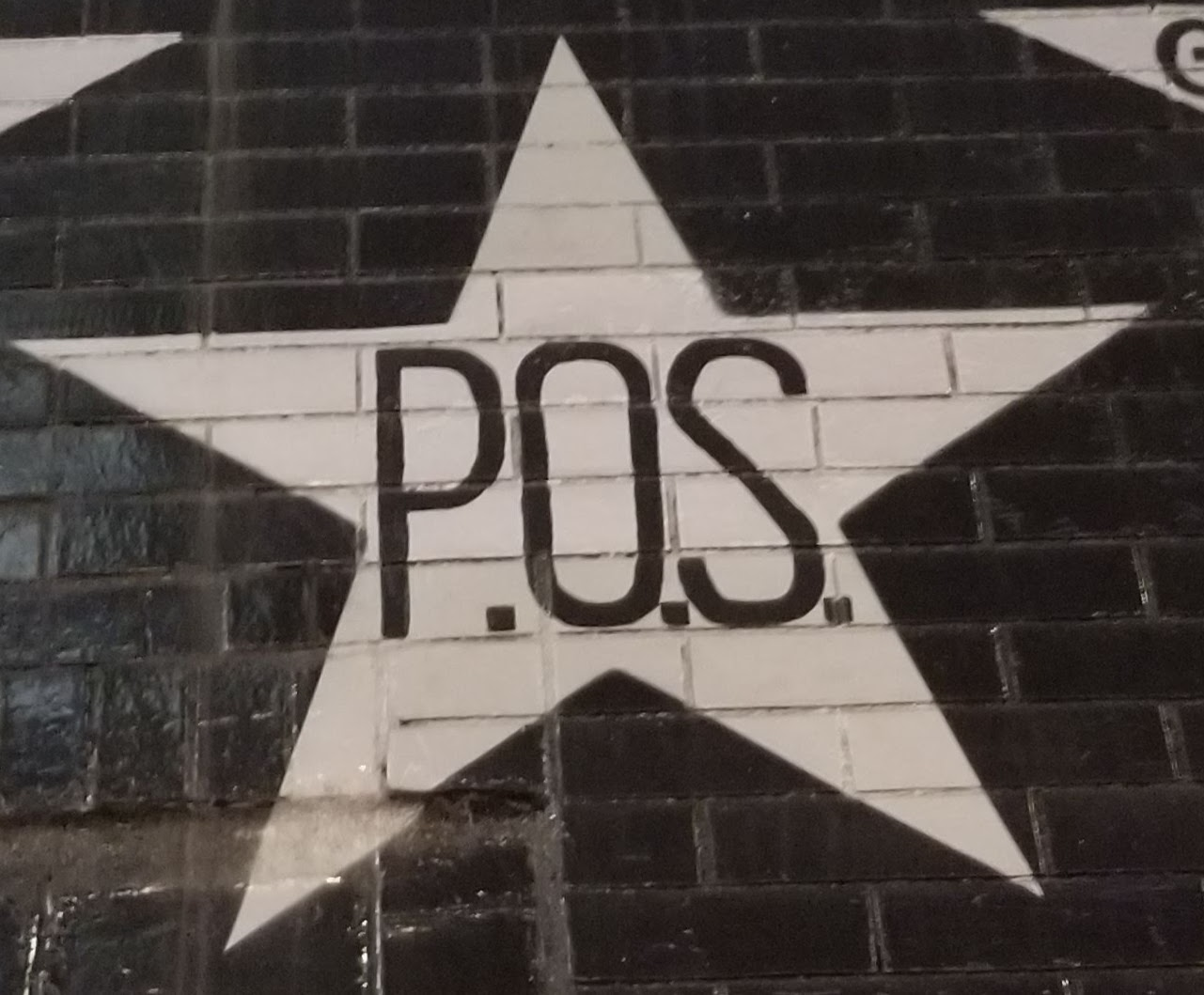 Star representing musician P.O.S on the outside mural of the Minneapolis nightclub First Avenue